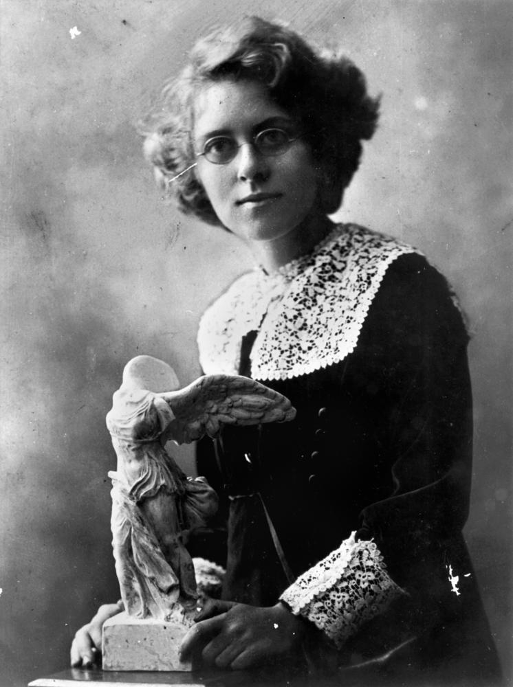 Portrait of Daphne Mayo